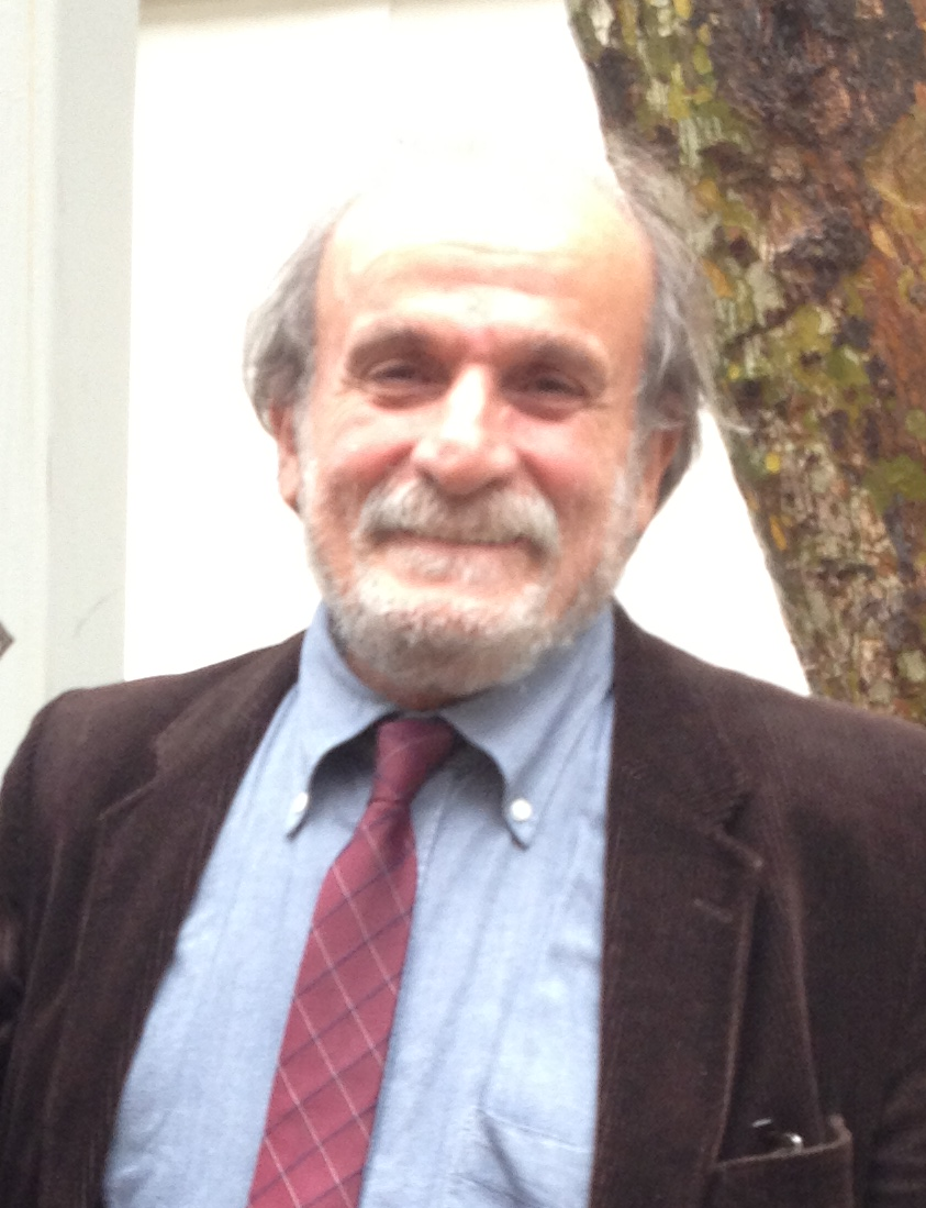 Turkish MP and co-chairman of Peoples' Democratic Party, Ertuğrul Kürkçü.